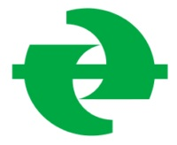 Seika Kyoto chapter